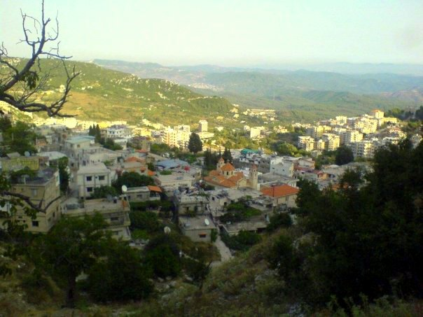 Kessab